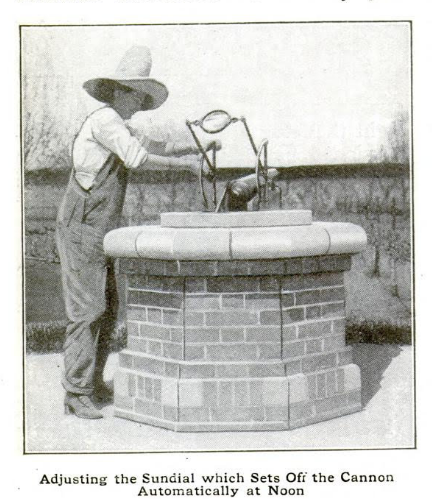 Sundial Cannon as depicted in Popular Mechanics in 1911